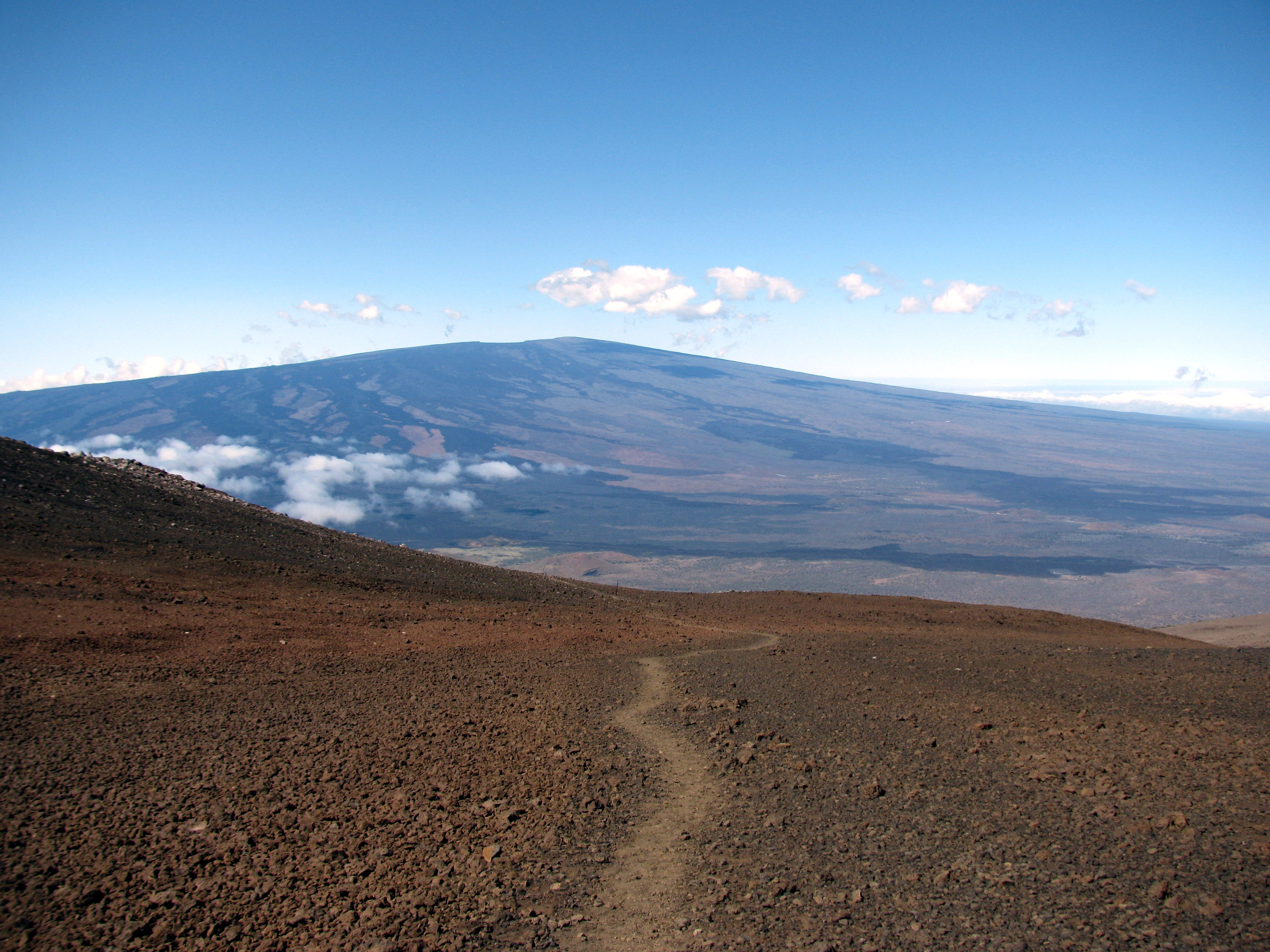 Mauna Loa as seen from the NNE. Shot at Humuʻula Trail to the summit of Mauna Kea.